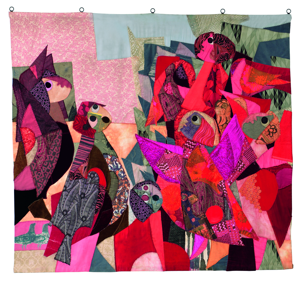 "Sirens" by Annemarie Graupner-Baumgartner, tapestry, 180 x 200 cm, 1971